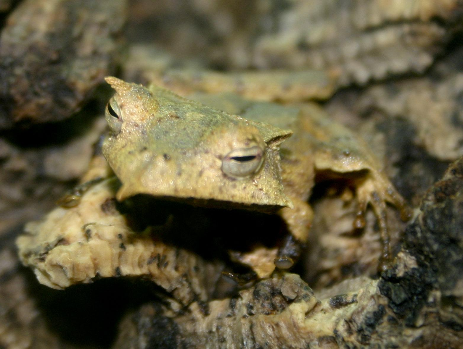 Hemiphractus fasciatus in Panama